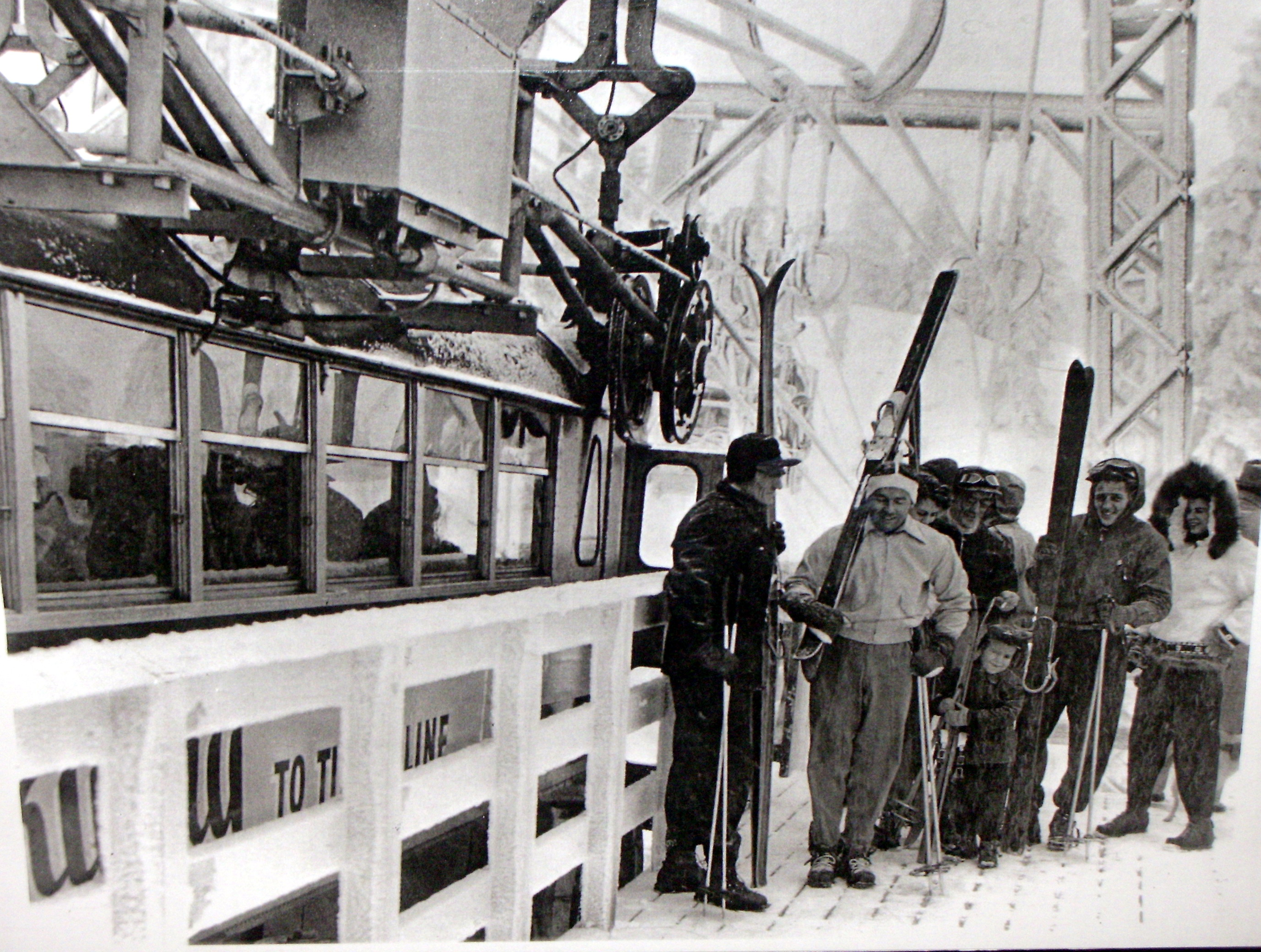 Loading area for the 1950s Skiway lift at Timberline Lodge ski area. This Skiway lift was opened in the Spring of 1951. See Popular Science Monthly of August 1951 which ran its featured article about the opening of the Skiway lift to the Timberline Lodge.